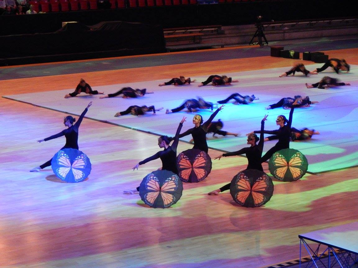 15 Gymnaestrada Mundial, participación de México.